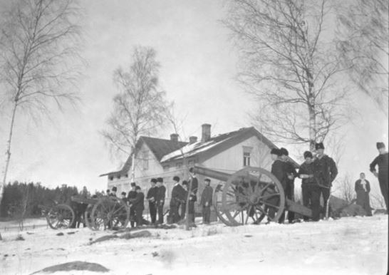 Swedish artillerymen and Russian guns in Haraldsby, Åland 1918.